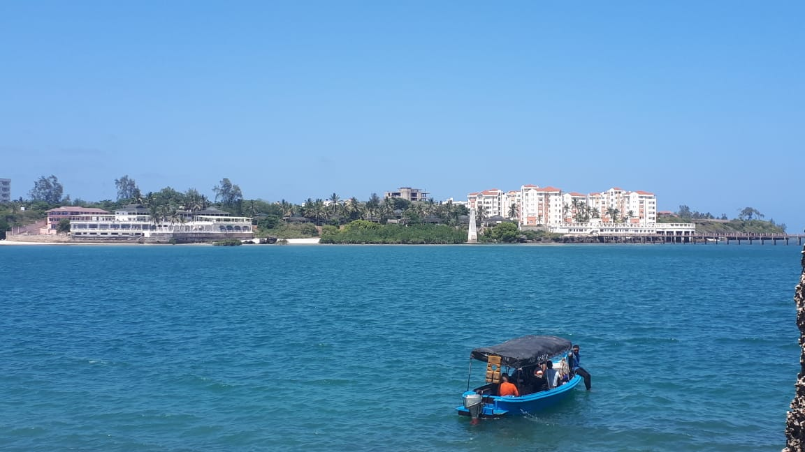 Engine powered boats are used to help people cross from one side of the ocean to another. This photo was taken at Mombasa Club near Fort Jesus (Mombasa is an island in Kenya) and they were heading to Nyali (Main Land) This is an image with the theme "Africa on the Move or Transport" from: Kenya